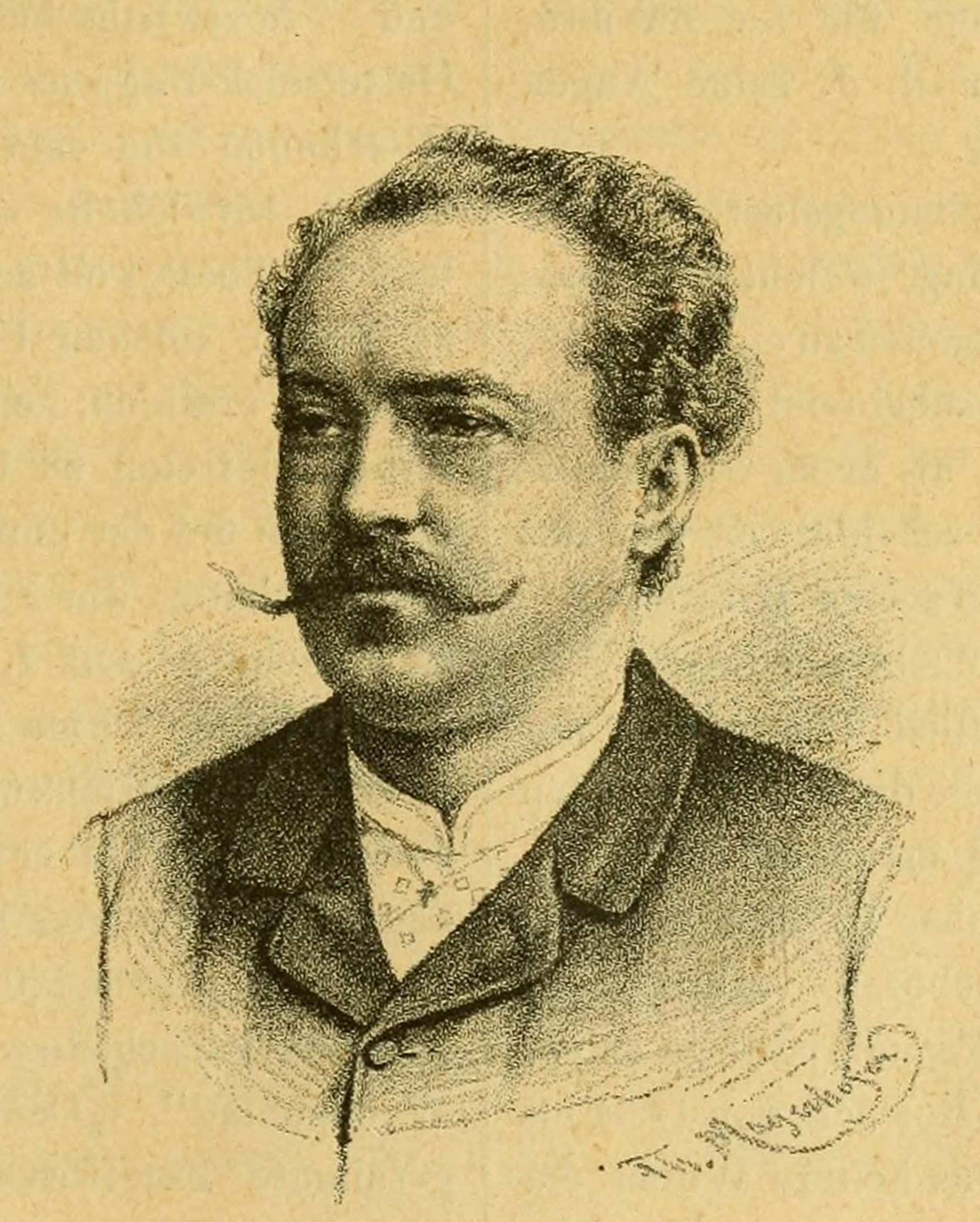 Wilhelm Frick (1843–1886), bookseller and publisher in Vienna, founder of the Wiener illustrirte Garten-Zeitung, purveyor to the Imperial and Royal Court